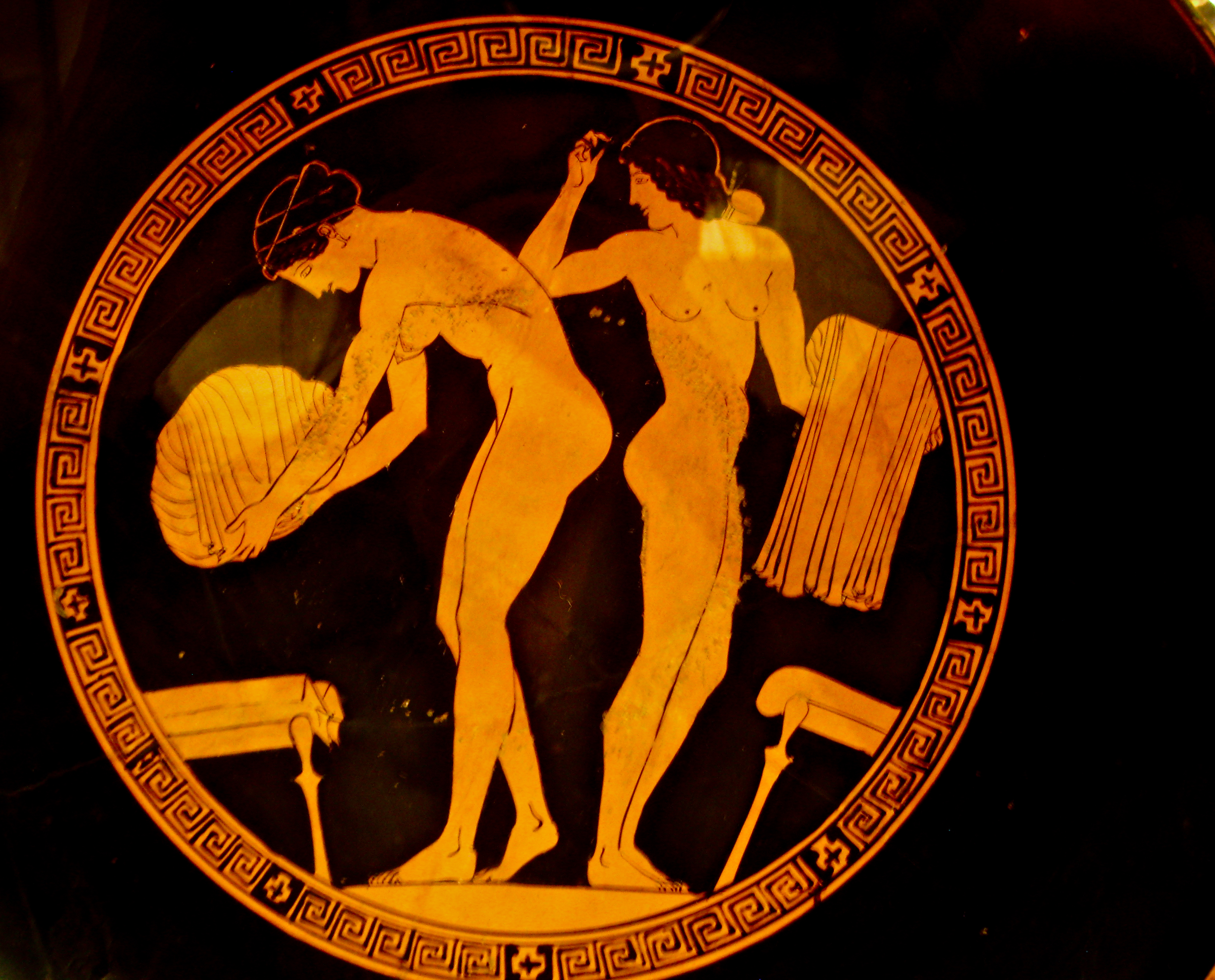 Terracota kylix (drinking cup), ca. 470 BC, Attic Greek, Douris, Metropolitan Museum of Art